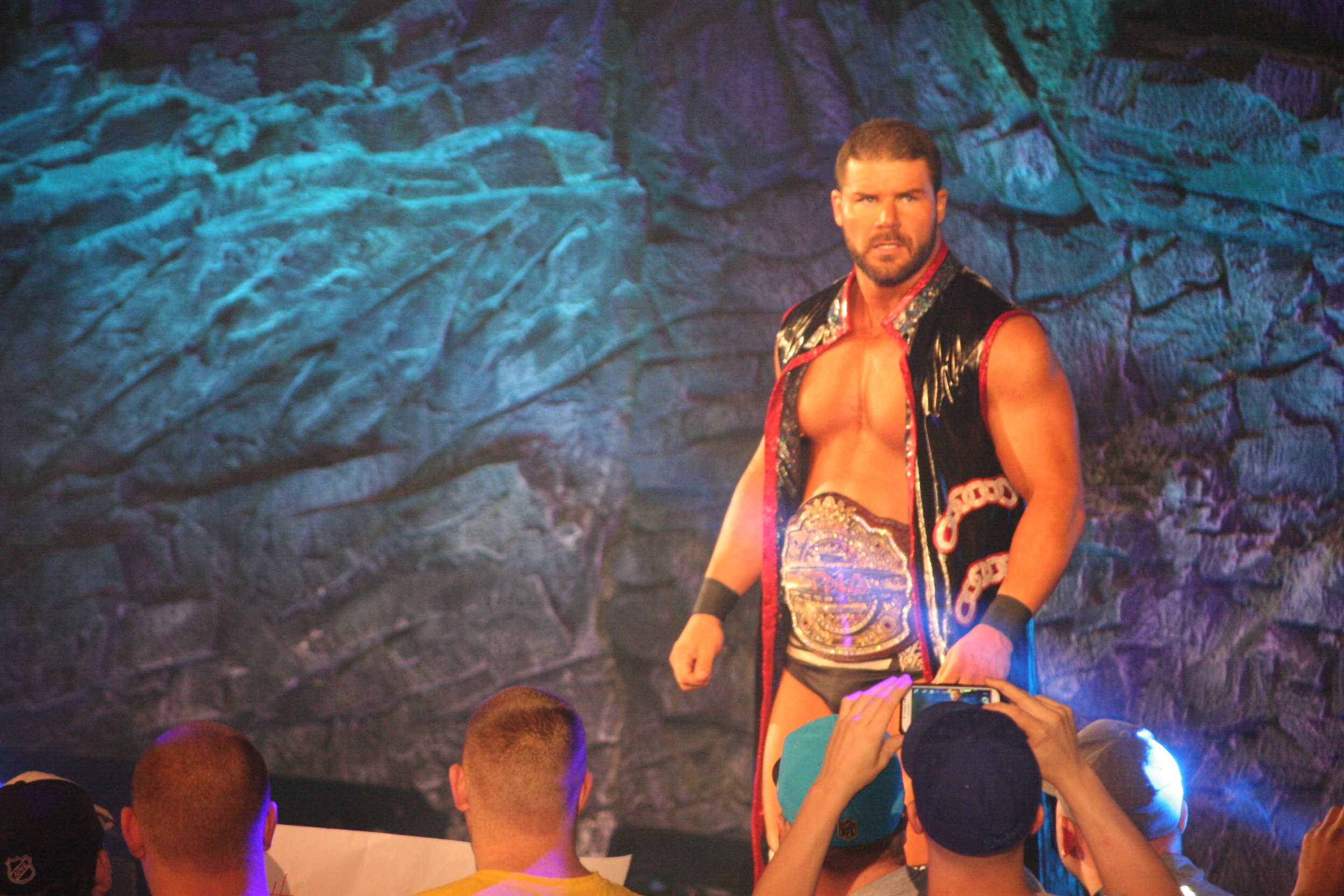 Bobby Roode at Bound for Glory in 2015.